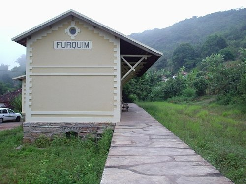 Churches in the district of Furquim, Minas Gerais, Brazil.